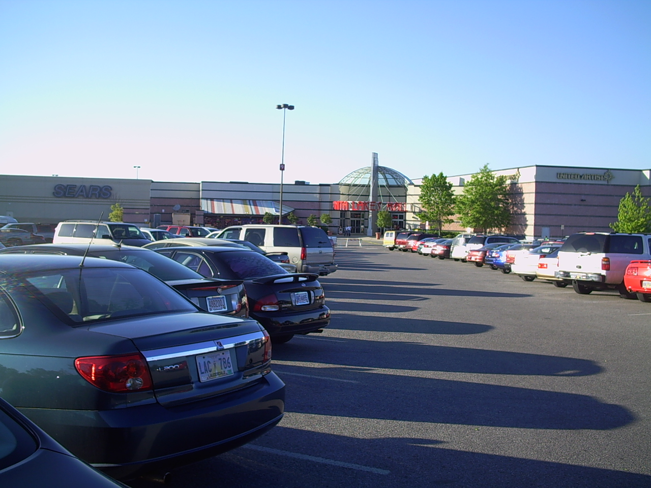 Looking at the United Artist Cinema Entrance from the parking lot of Bonita Lakes Mall in Meridian, Mississippi.